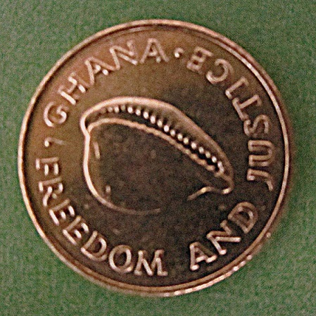 Ghana 1 cedi coin with cowrie shell image.